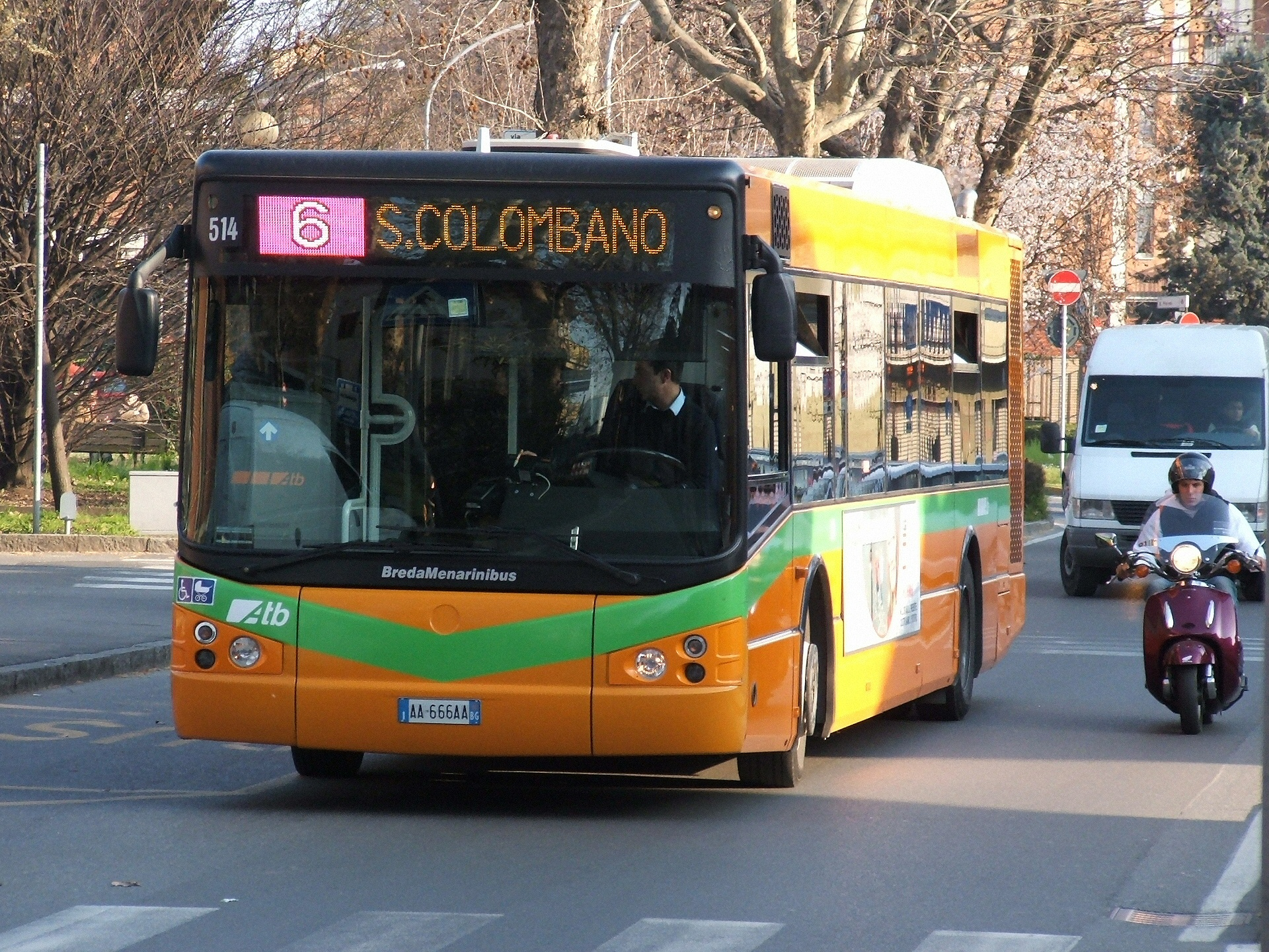 Bus in Bergamo, Italy.